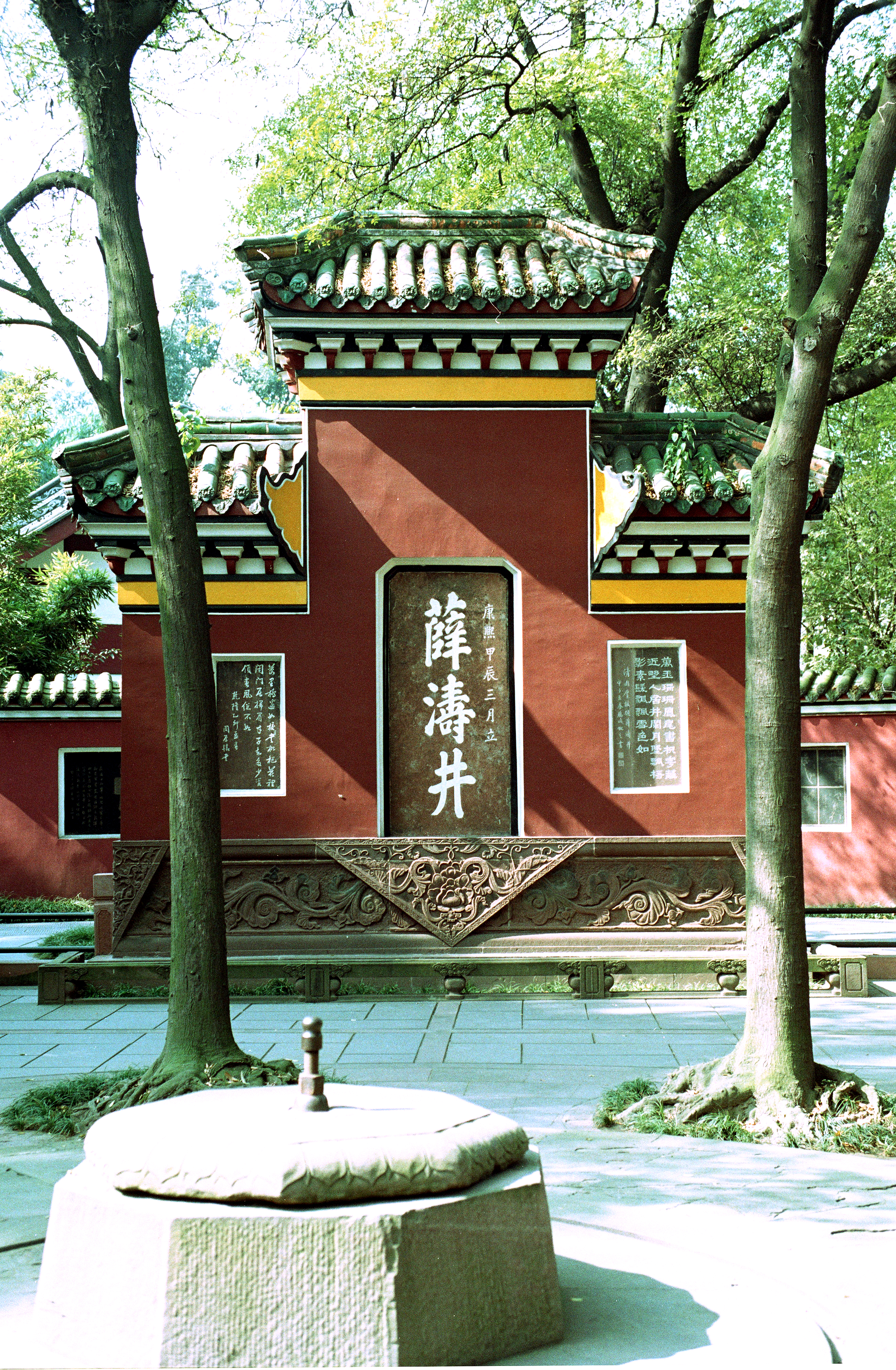 薛涛井 Xue Tao Well in Wangjiang Park, Chengdu